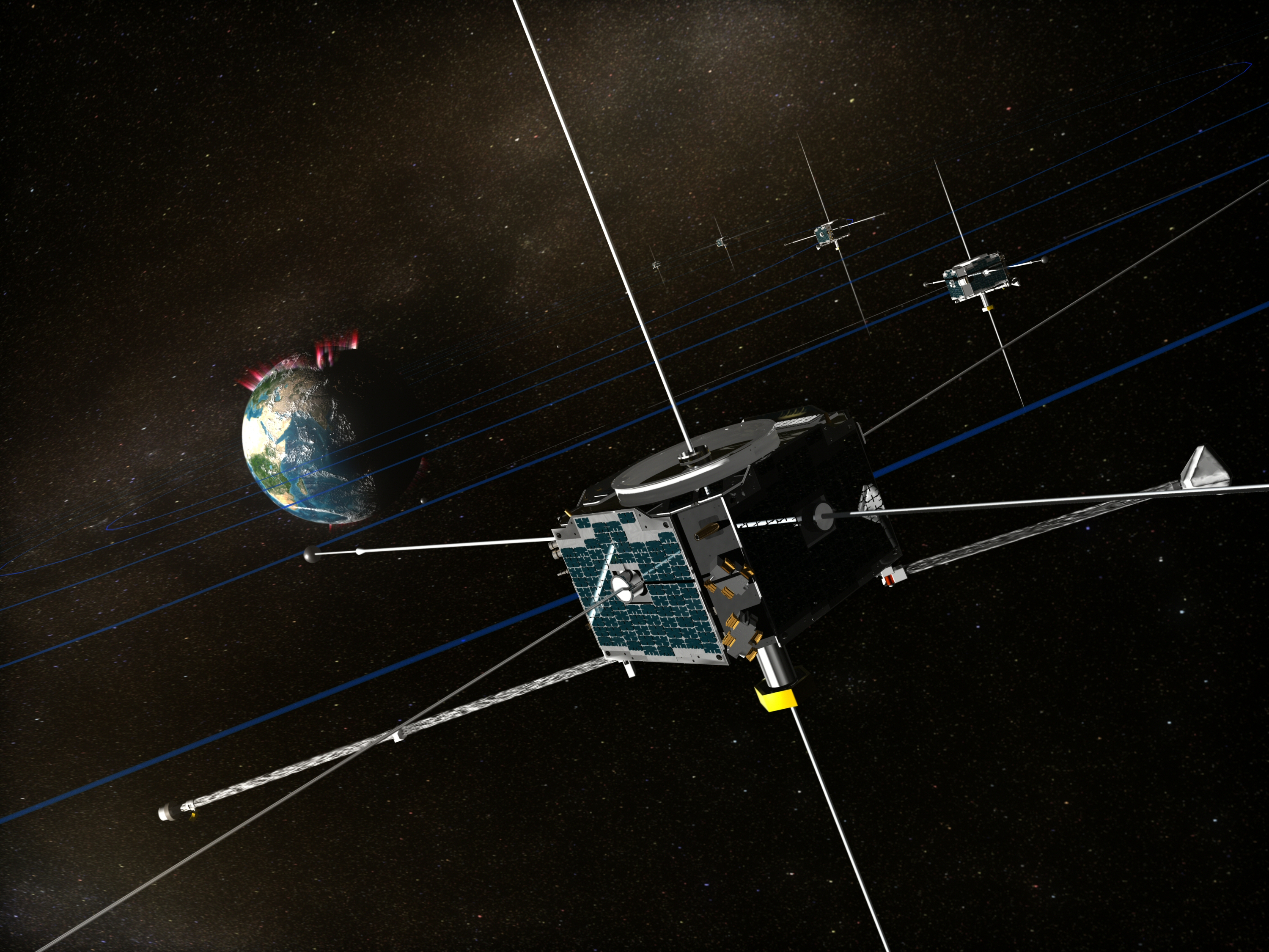 This is an artist's concept of the THEMIS spacecraft as it might appear in orbit.